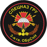 3rd Spetsnaz Brigade sleeve insignia (Tolyatti)